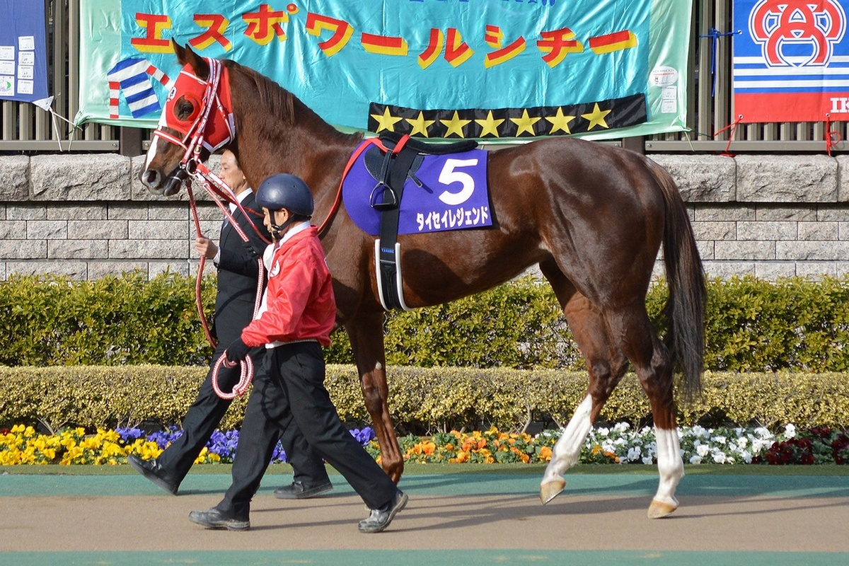 Japanese race horse Taisei Legend at Tokyo racecourse. Tokyo (JPN) 17 Feb 2013February Stakes (Grade 1) (4yo+) (Dirt) 1m Standard RankHorse NameOddsAgeWgtTrainerJockey1stGrape Brandy (JPN)57/10H59-0Takayuki YasudaSuguru Hamanaka2ndEspoir City (JPN)25/1H89-0Akio AdachiMasami Matsuoka3rdWonder Acute (JPN)41/5H79-0Masao SatoRyuji Wada4th - 13th/omission14thTaisei Legend (JPN)107/1H69-0Yoshito YahagiHironobu Tanabe